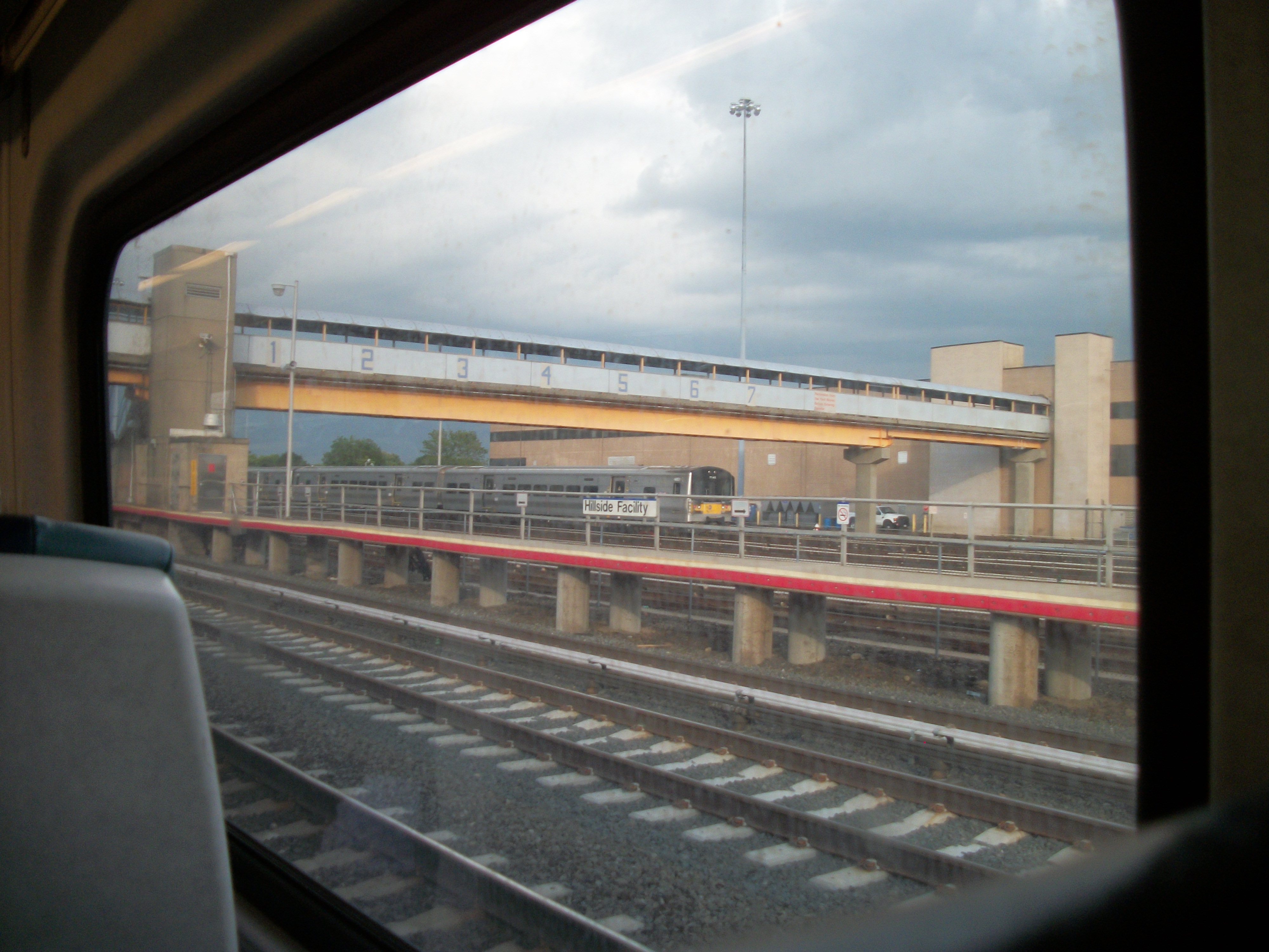 Eastbound platform of the LIRR Hillside Maintenance Facility and pedestrian bridge to the yard, as seen from inside some sort of EMU (I forget what it was. Sorry). An M7 is off in the distance.